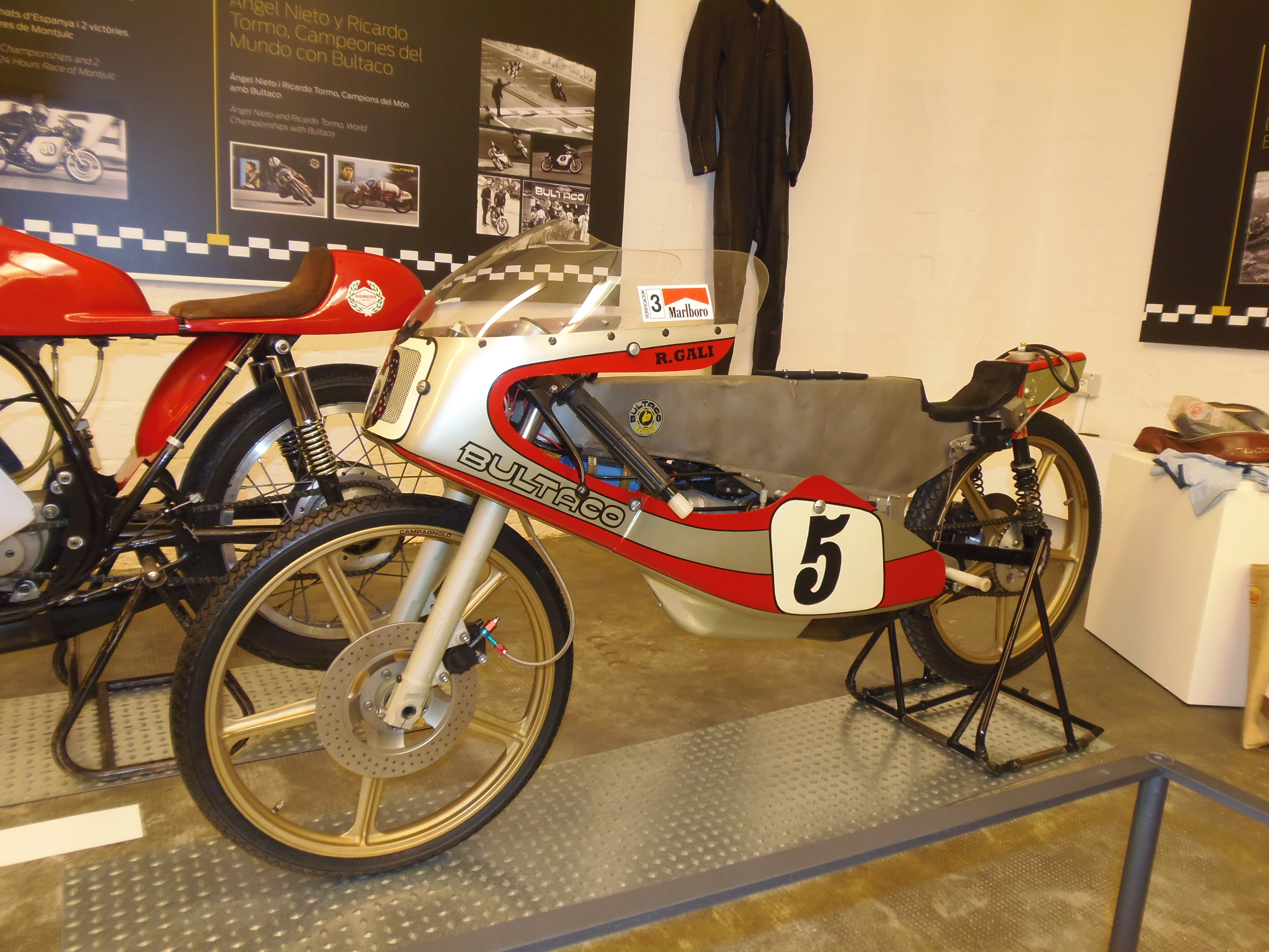 Ramon Galí's Bultaco TSS MK2 (50 cc, 1976)